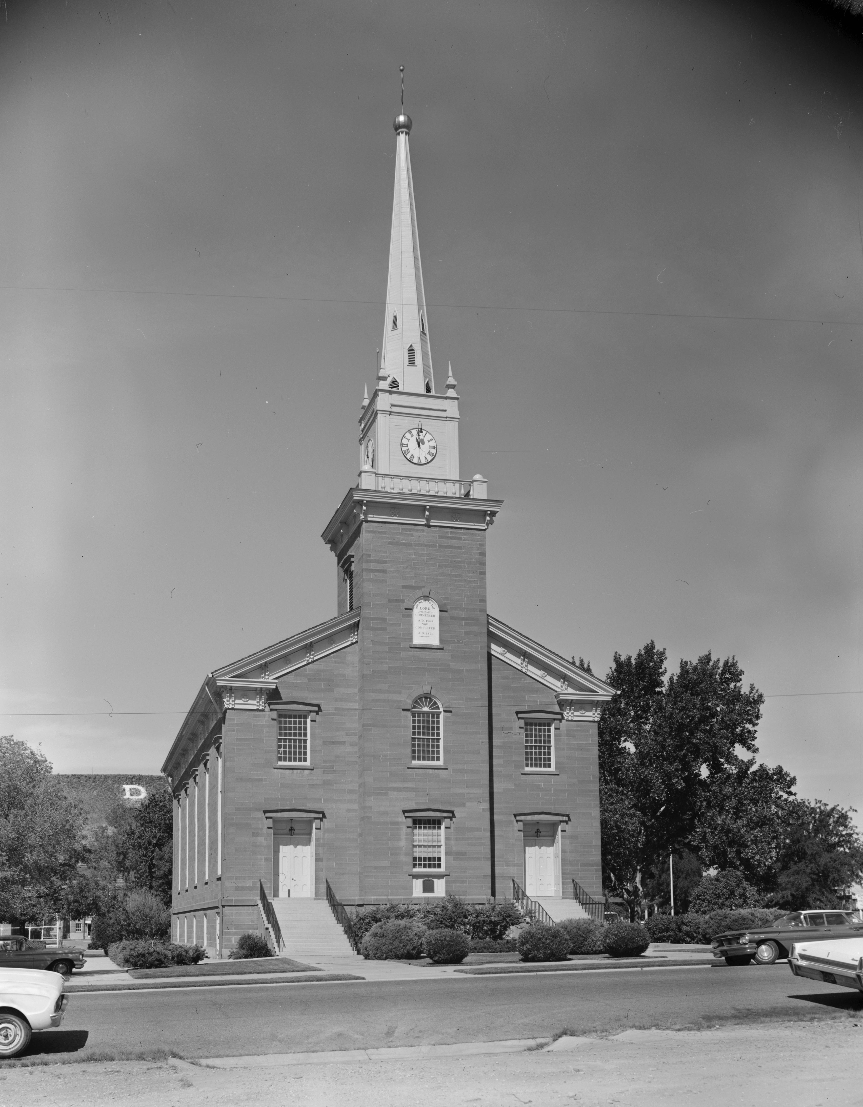 Front of the St. George Tabernacle, located at the intersection of Tabernacle and Main Streets in St. George, Utah, United States. Built in 1876, it is listed on the National Register of Historic Places.